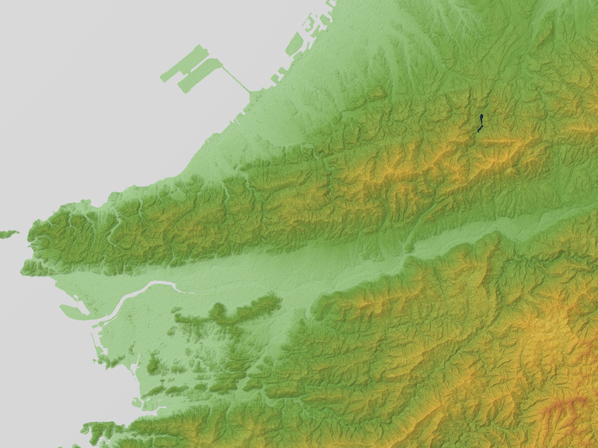 Izumi Mountains and Wakayama Plain in Honshu, Japan.